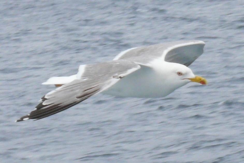 Larus michahellis, Thasos, Greece